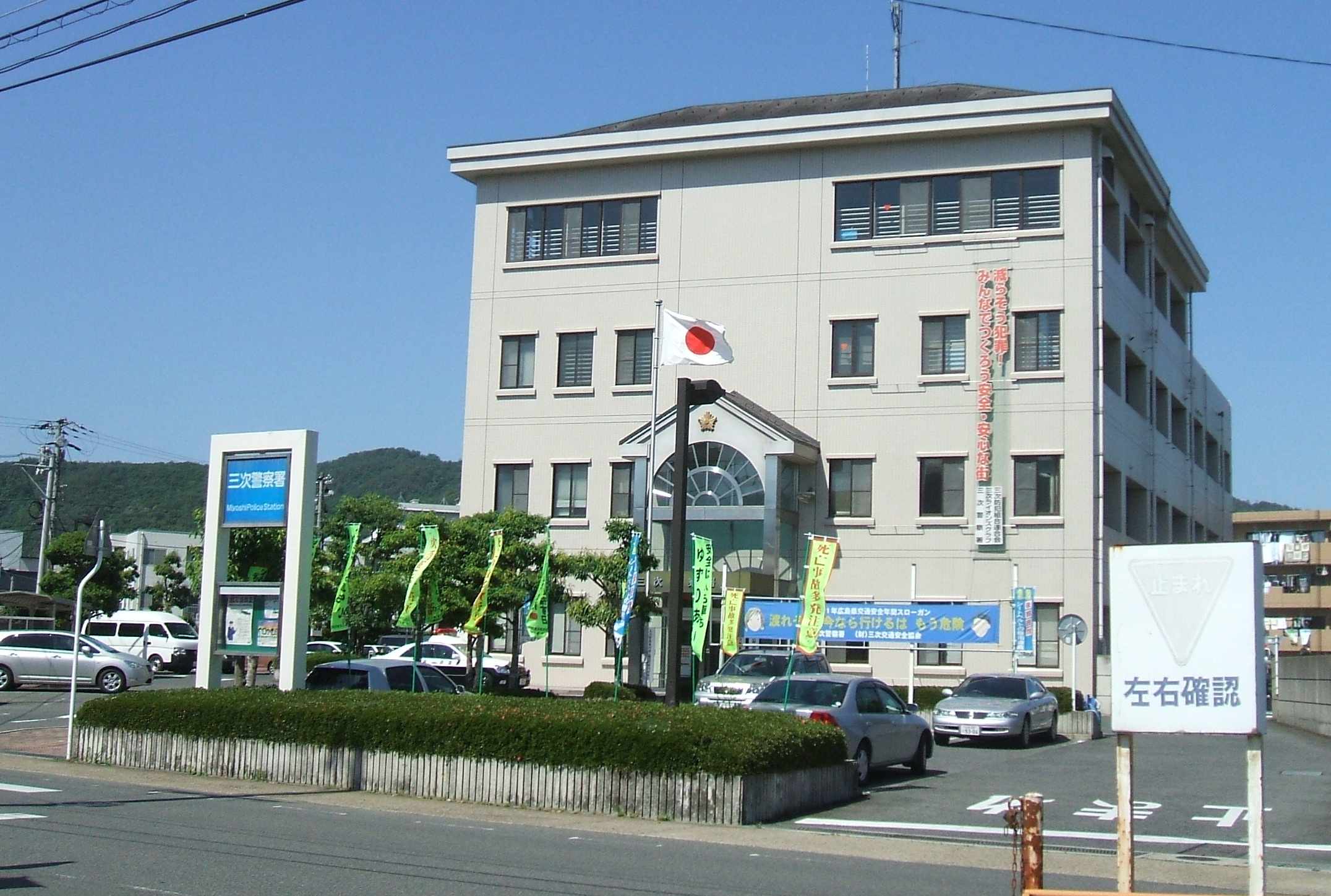 Miyoshi_Police_station